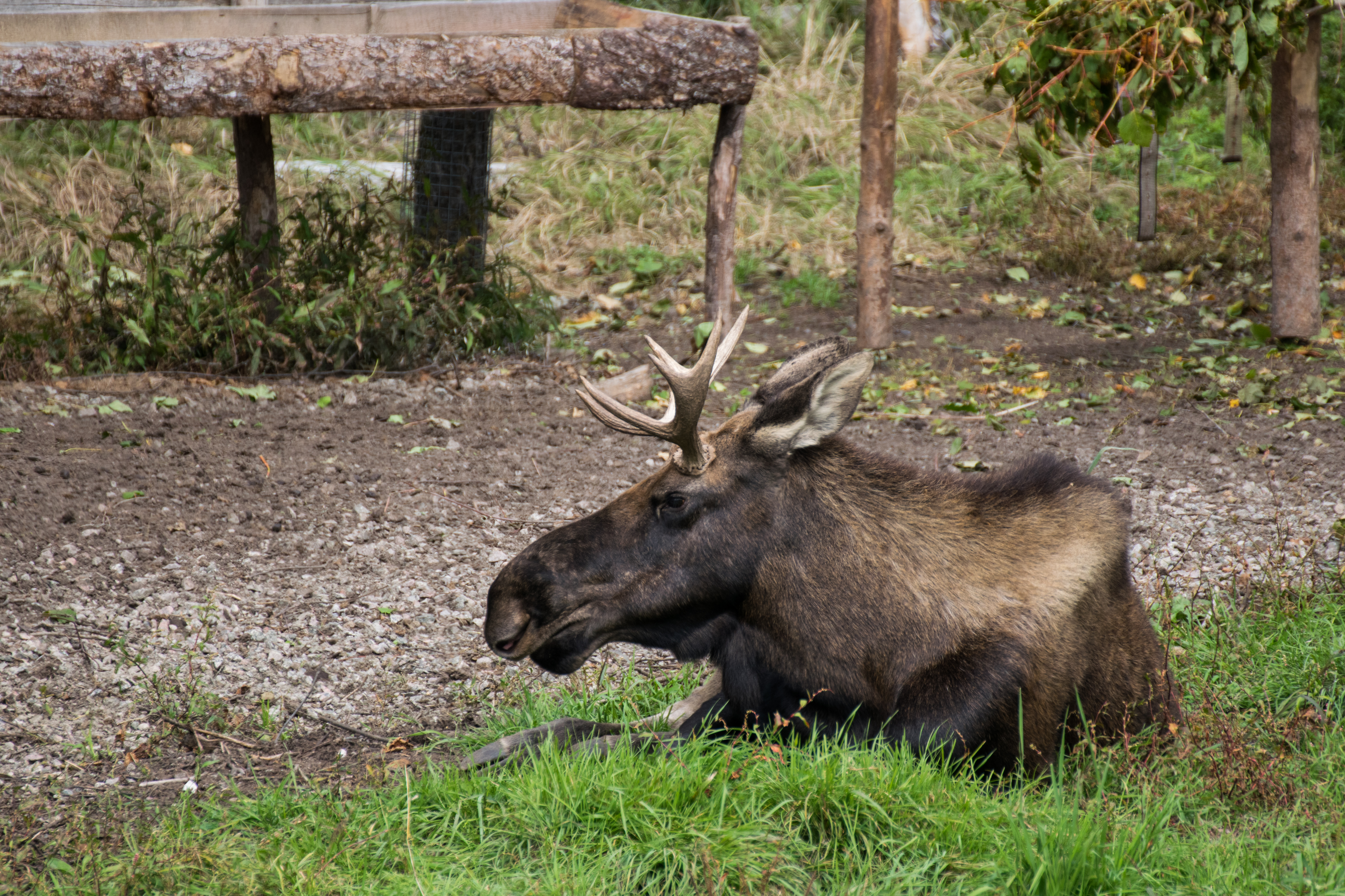 A moose at the Wild Zoo of St-Félicien (Quebec, Canada).